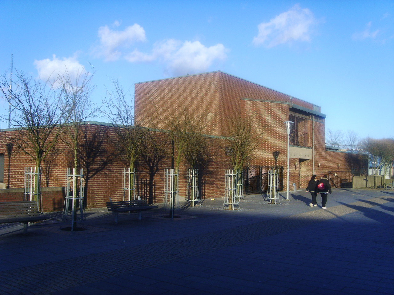 The church in Hjällbo in Gothenburg, Sweden.